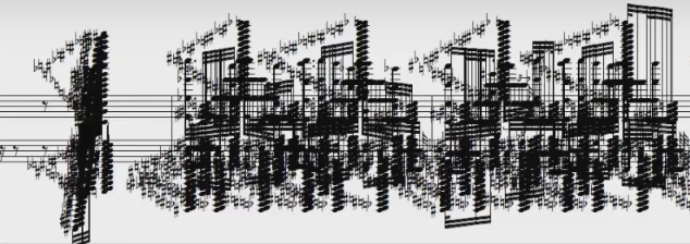 Fragment of a musical score of Black MIDI.